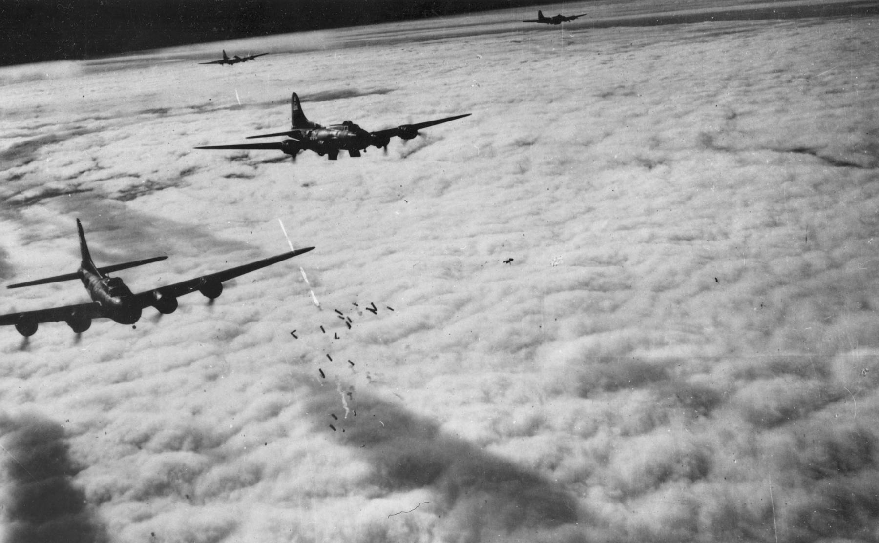 Boeing B-17F radar bombing through clouds over Bremen, Germany, on Nov. 13, 1943.